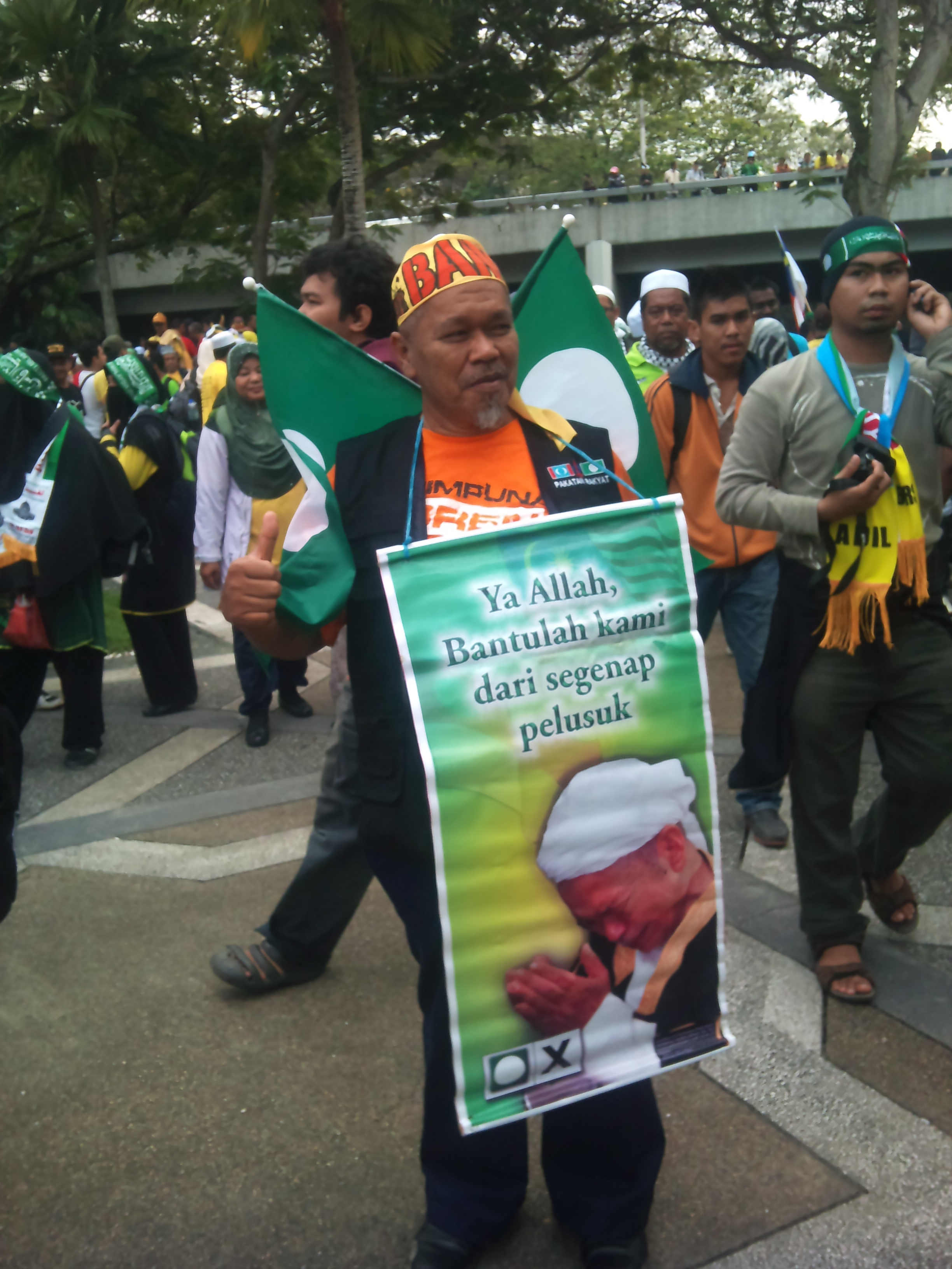 Nik Aziz Nik Mat አማርኛ: ኒ አዚዝ ኒ ማት